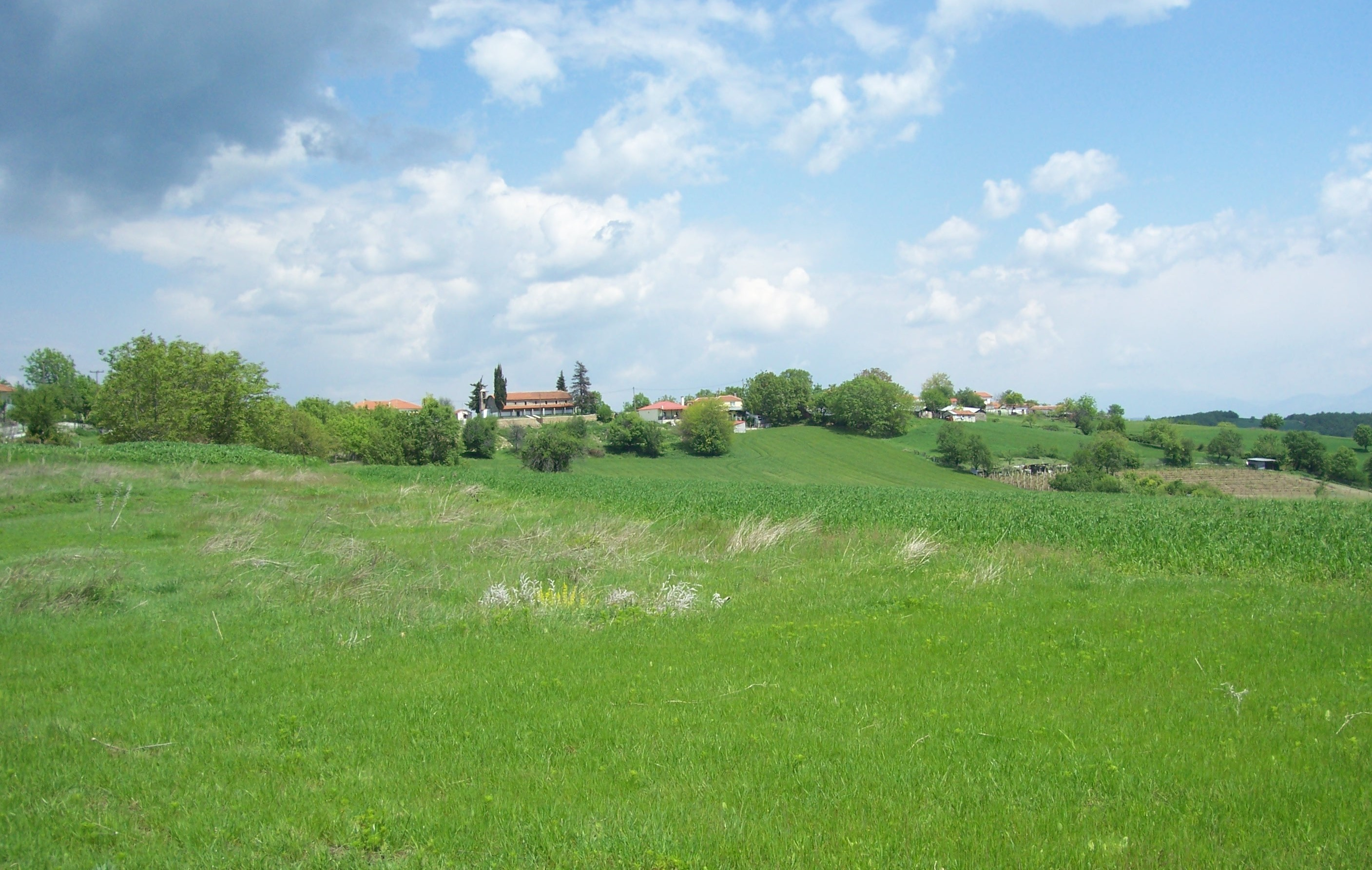 Ergastiria, location in Mavronoros, Grevena, Greece